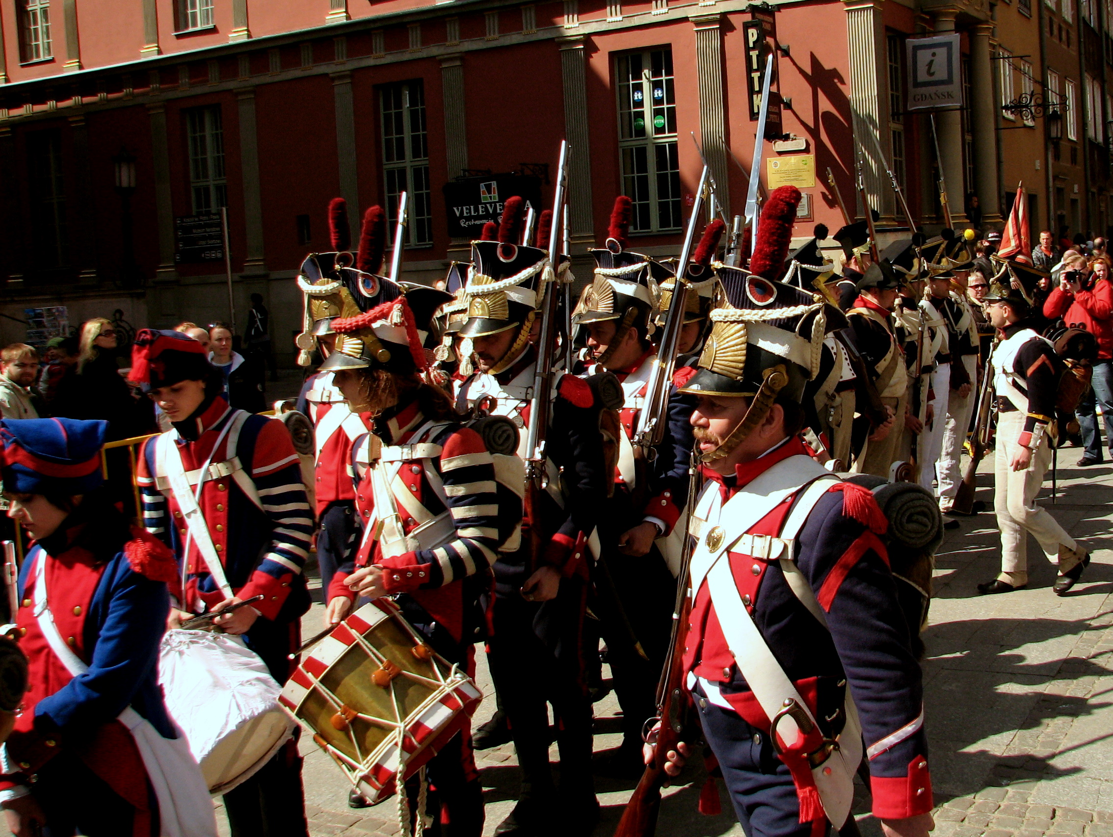 Reenactment of the entry of Napoleon to Gdańsk after siege.